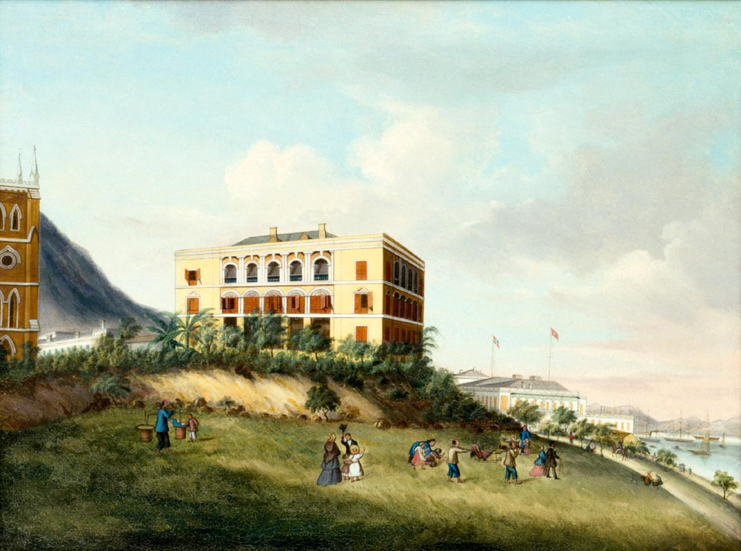 Oil on canvas of the residence of Augustine Heard and Company, Hong Kong, c. 1860